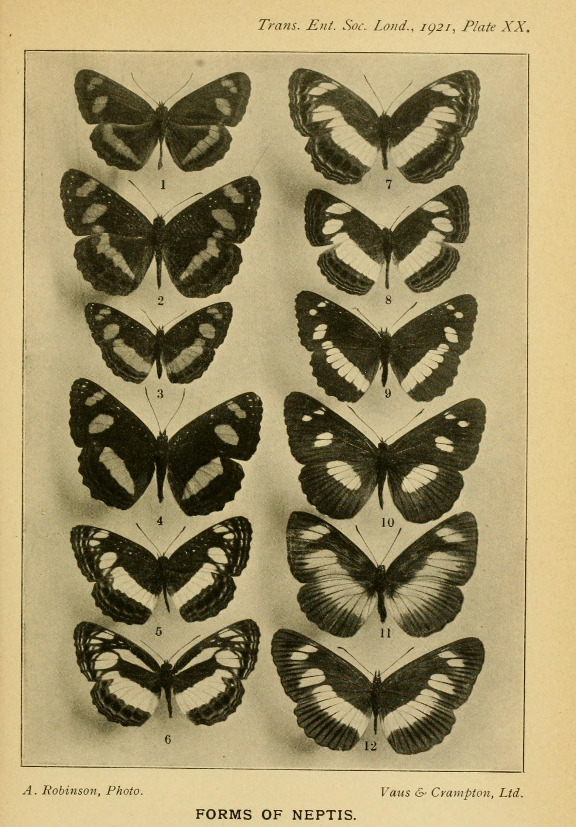 Eltringham, H. (1922): On the African species of the genus Neptis Fab. Transactions of the Entomological Society of London 1921:532-588. Plate XX text figure 1 Neptis frobenia (Fabricius, 1798) male figure 2 Neptis dumetorum Boisduval, 1833 female figure 3 Neptis mayottensis Oberthür, 1890 male figure 4 Neptis comorarum Oberthür, 1890 female figure 5 Neptis saclava marpessa Hopffer, 1855 female figure 6 Neptis metella (Doubleday, 1848) female figure 7 Neptis nemetes nemetes Hewitson, 1868 male figure 8 Neptis poultoni Eltringham, 1921 male figure 9 Neptis incongrua incongrua Butler, 1896 female figure 10 Neptis woodwardi Sharpe, 1899 female figure 11 Neptis ochracea ochracea Neave, 1904 female figure 12 Neptis exaleuca Karsch, 1894 male